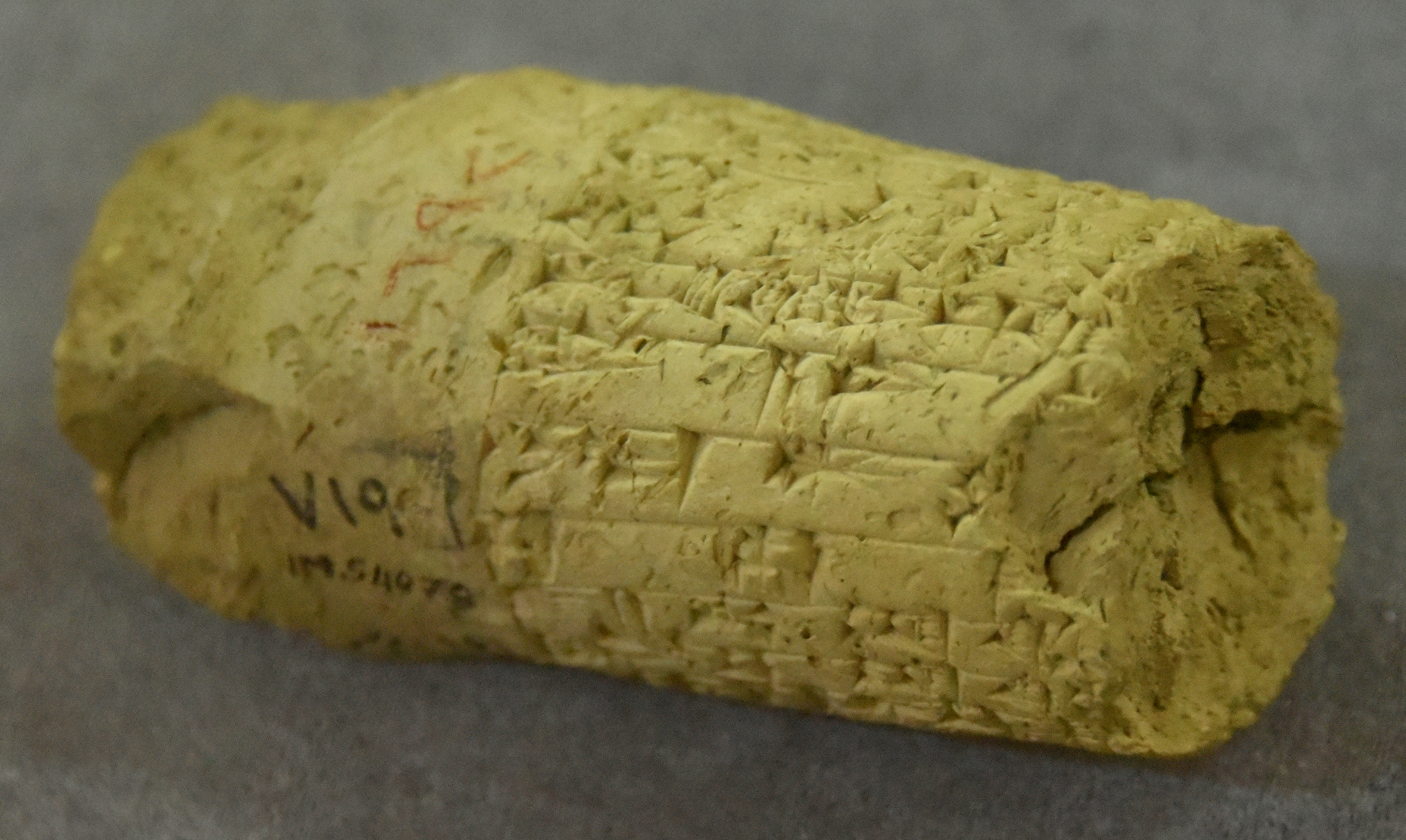 The cuneiform inscription on this partially broken clay cone mentions the name of Nur-Adad, king of Larsa, reigned 1921-1905 BCE. From southern Mesopotamia, Iraq. On display at the Sulaimaniya Museum, Iraqi Kurdistan.